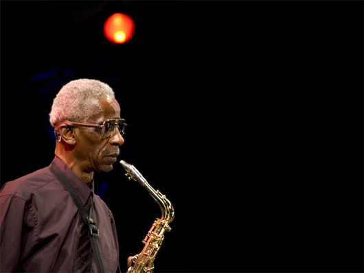 saxophonist Roscoe Mitchell at the Pomigliano Jazz Festival